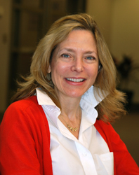 scholar of Japanese culture and animation Susan J. Napier